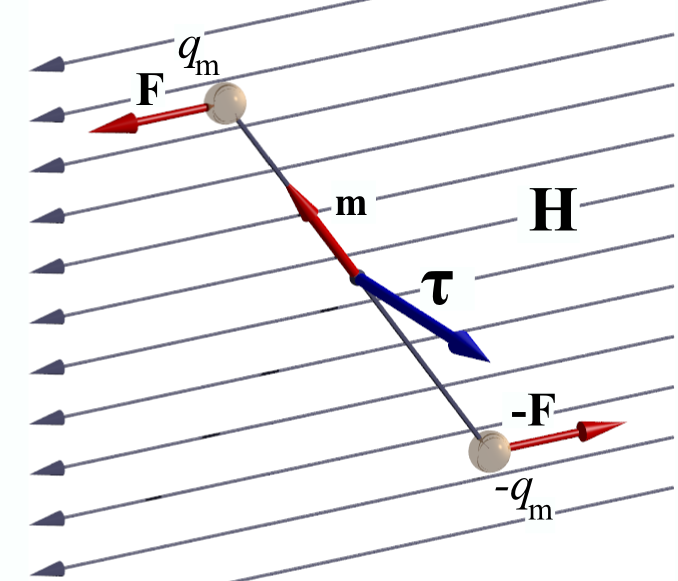 A dipol in a constant H-field